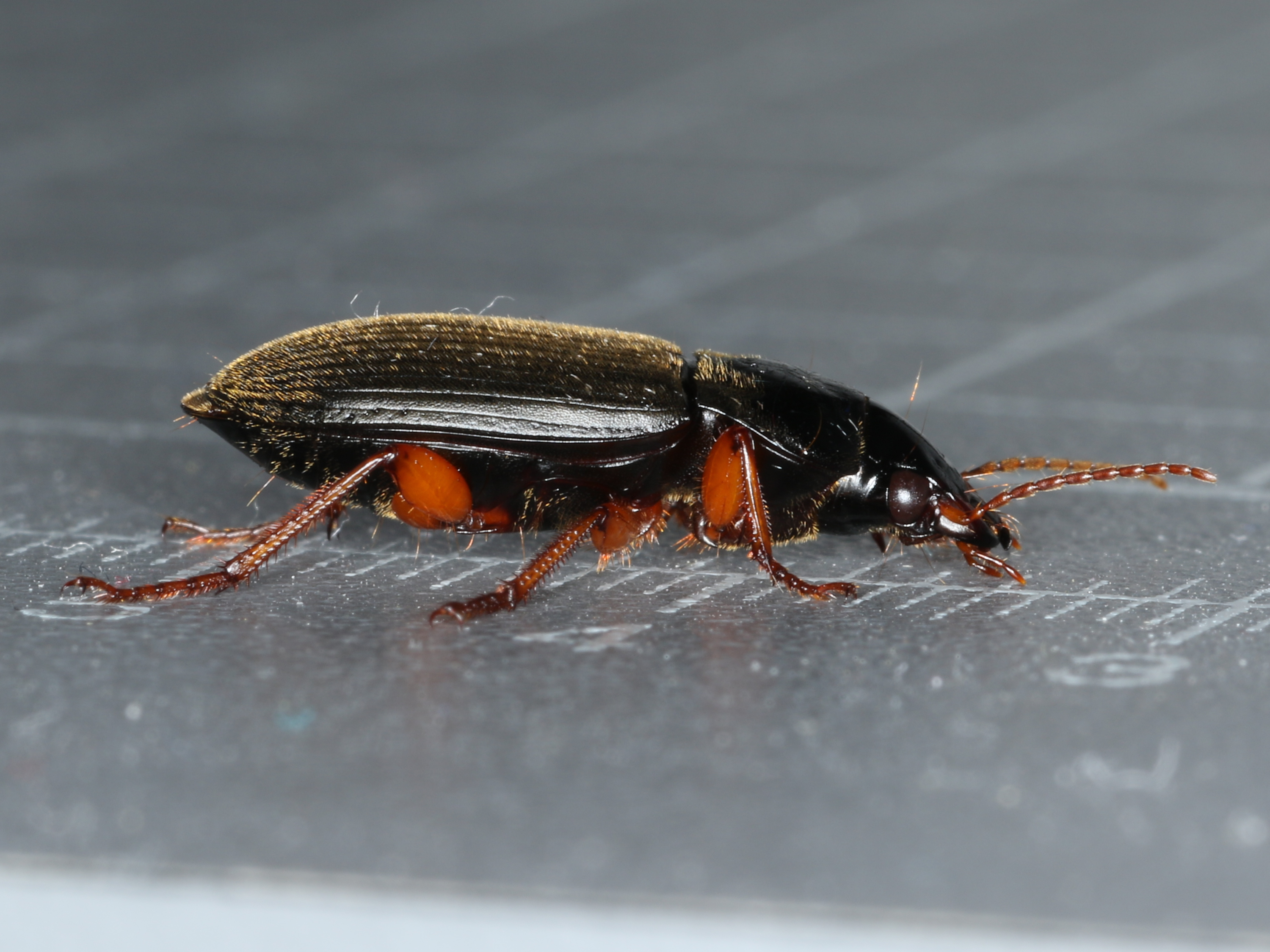 Harpalus rufipes (De Geer, 1774), to Robinson trap, Søborg Denmark, 22/23 July 2015